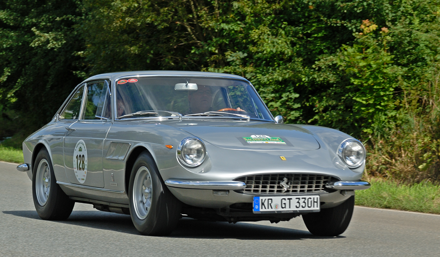 Ferrari 330 GTC from 1967 during the Saxony Classic Rallye 2010.